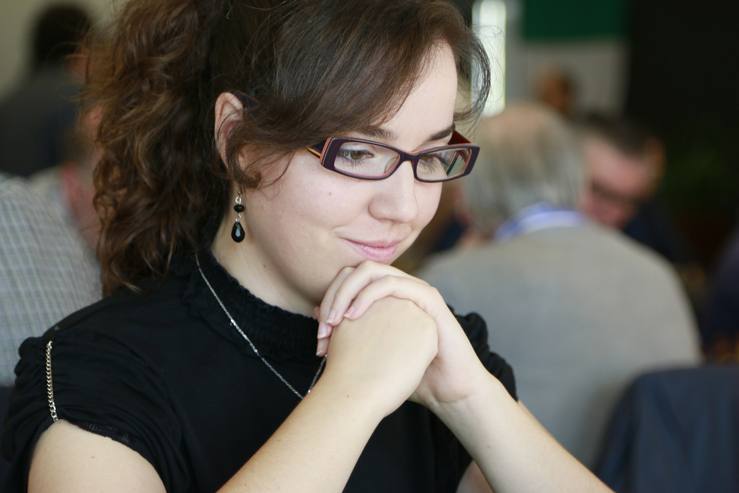 Sabrina Vega Gutiérrez. Chess player. 8th Italian Female Team Championship. Civitanova Marche (Italy). May 2015.